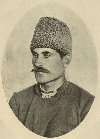 Mikola Onatskiy, Ukrainian peasant, a member of the First Russian State Duma